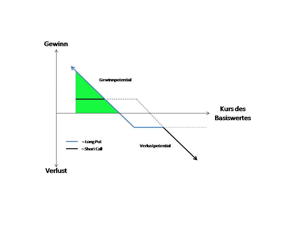 Synthetic short